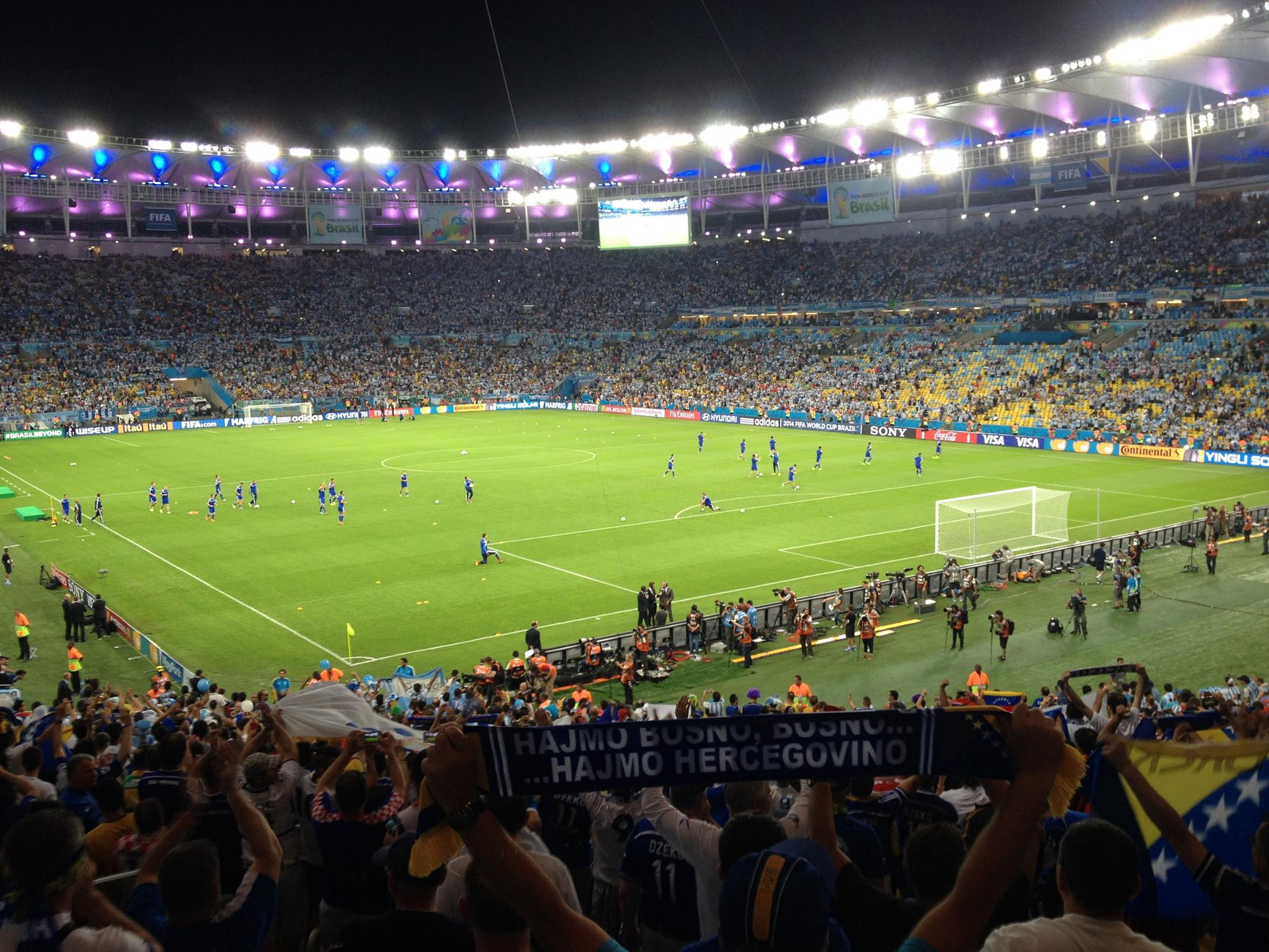 Bosnia-Herzegovina side warm up at the Estádio do Maracanã, Rio de Janeiro ahead of their clash with Argentina during 2014 FIFA World Cup